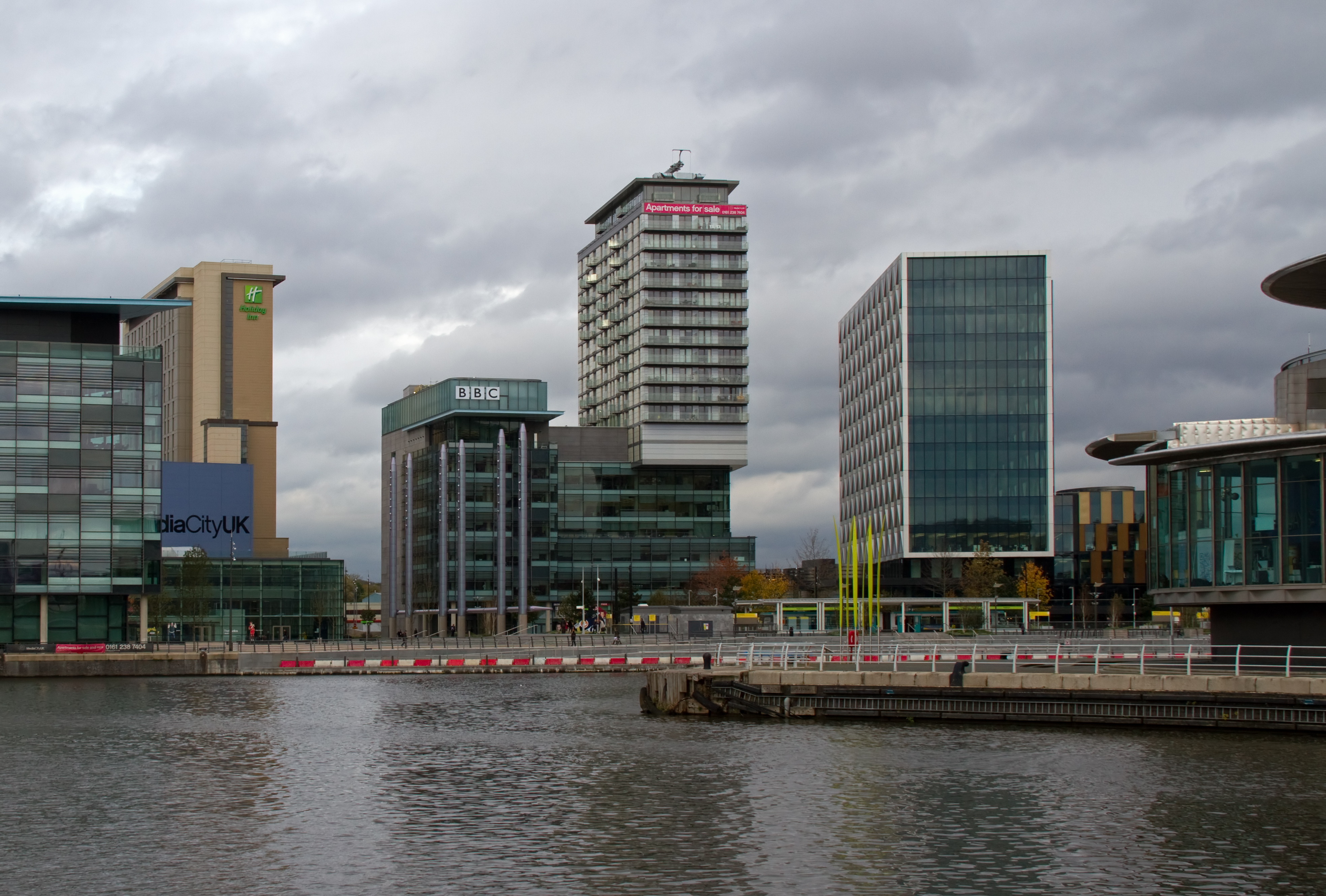 Salford Quays The BBC 3